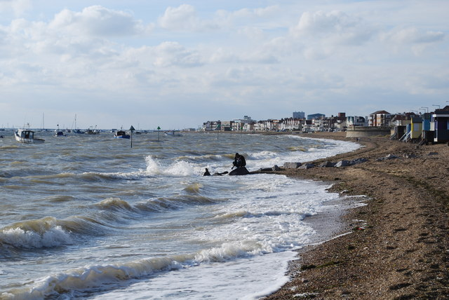 High tide at Thorpe bay. The combination of the high tide and strong winds, make it appear more like the open seashore ,rather than the Thames estuary.